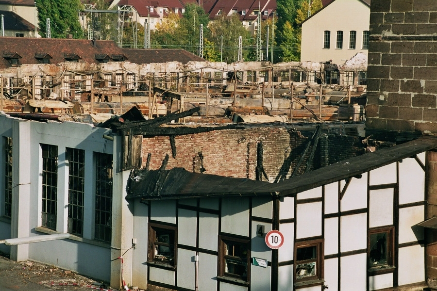 Damage roundhouse at Nuremberg West Depot